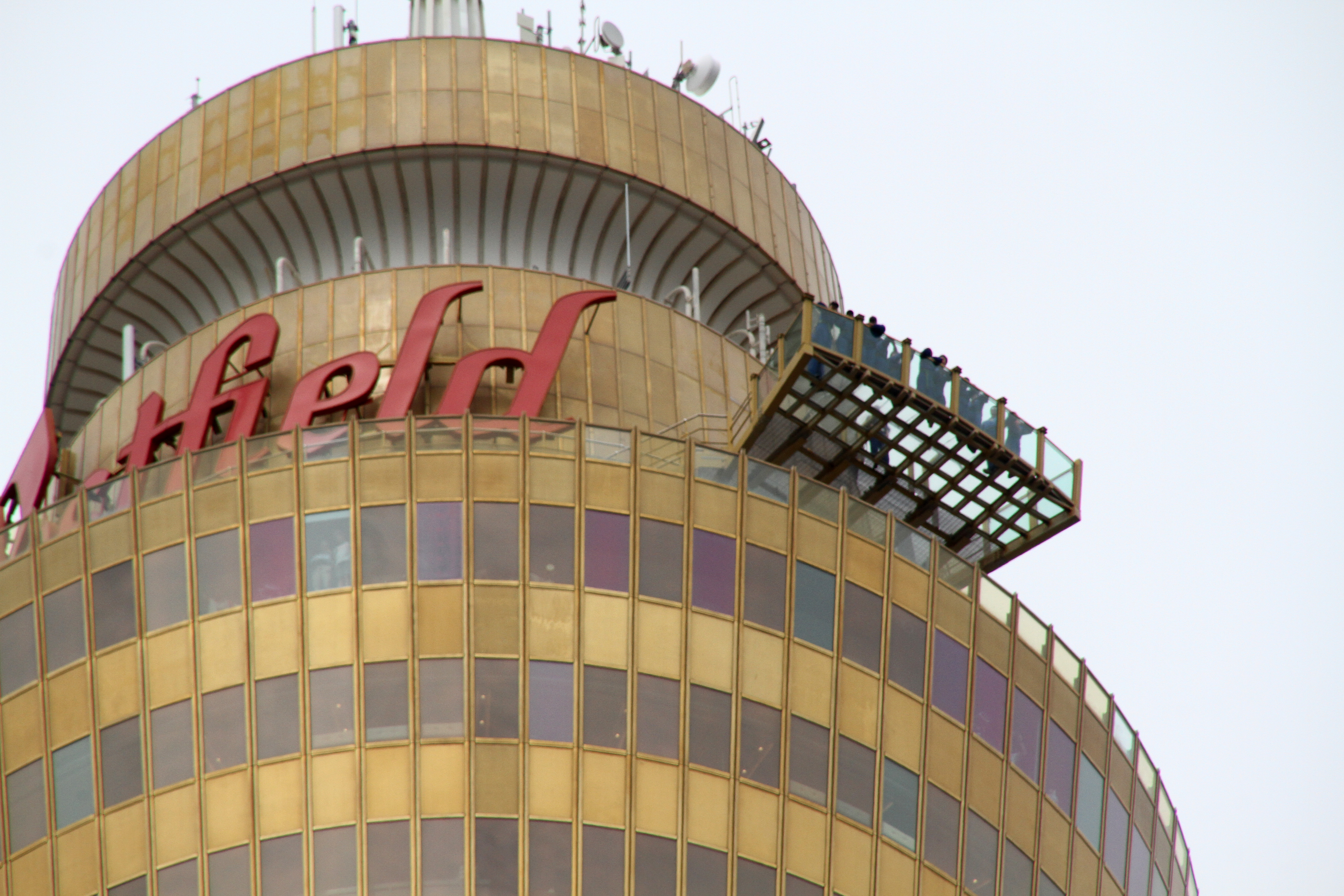 Westfield Tower with Skywalk